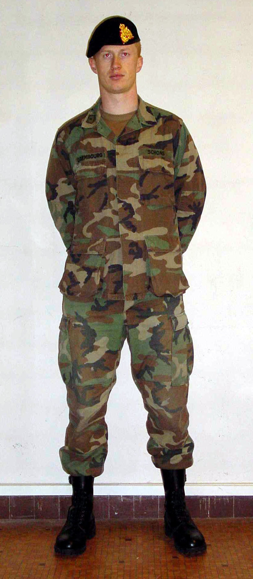 The Luxembourg Army uniform known as dress S4.